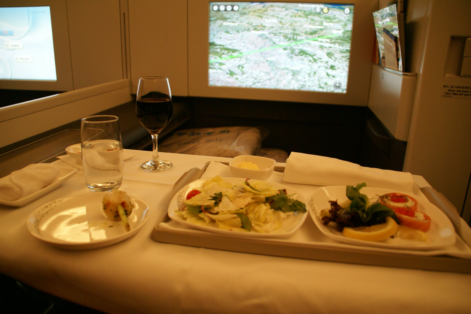 Dinner in 1st class during Air China flight CA0932 from Frankfurt to Beijing